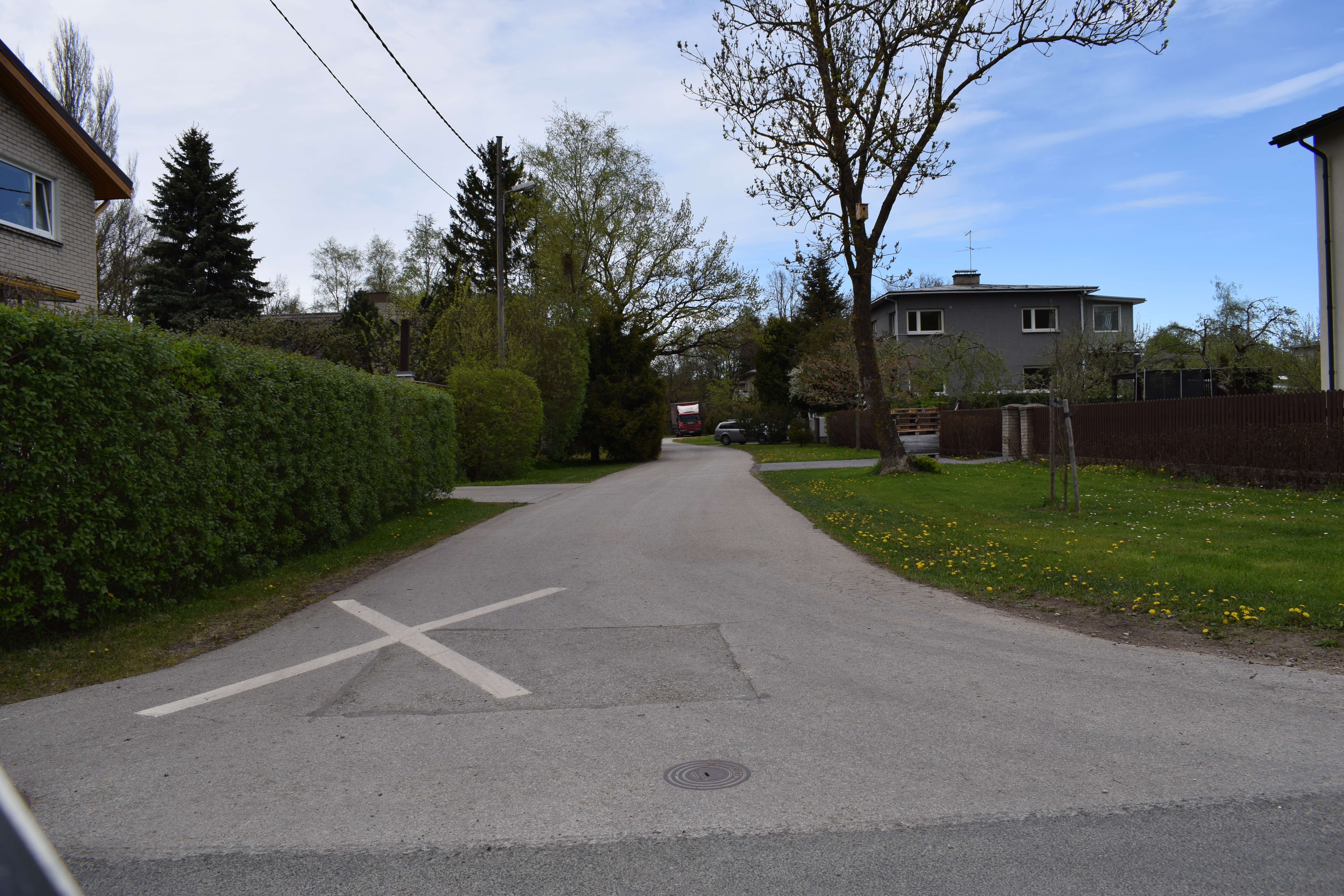 Hiiepuu street